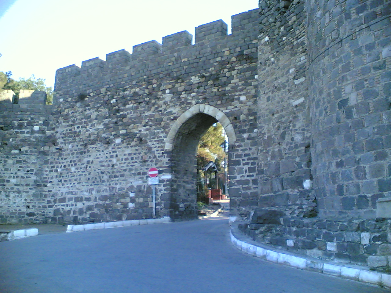 Entry of the castle of Kadifekale (ancient Pagos) in İzmir, Turkey